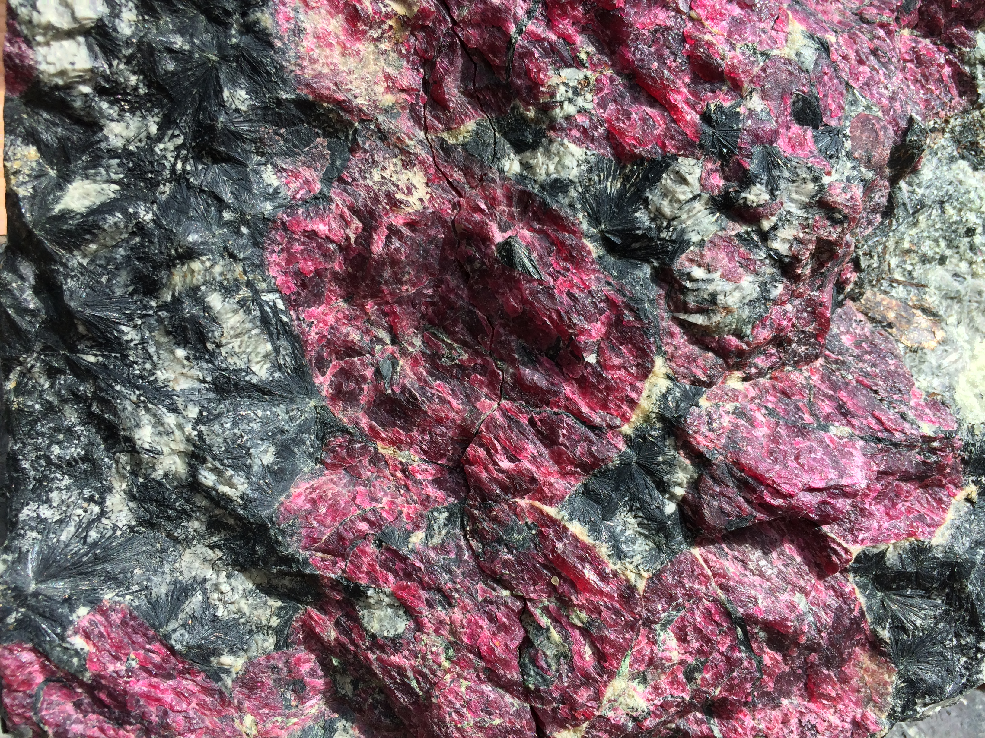 Mineral from Khibiny mountain